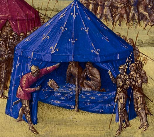 Death Louis IX.